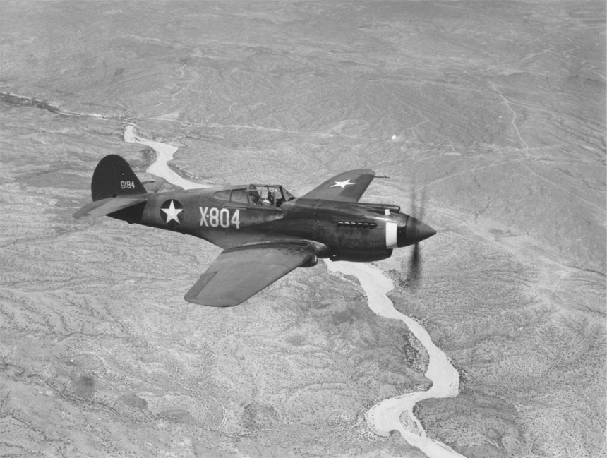 Curtiss P-40, 3/4 front view, in flight. Source of description: [1]